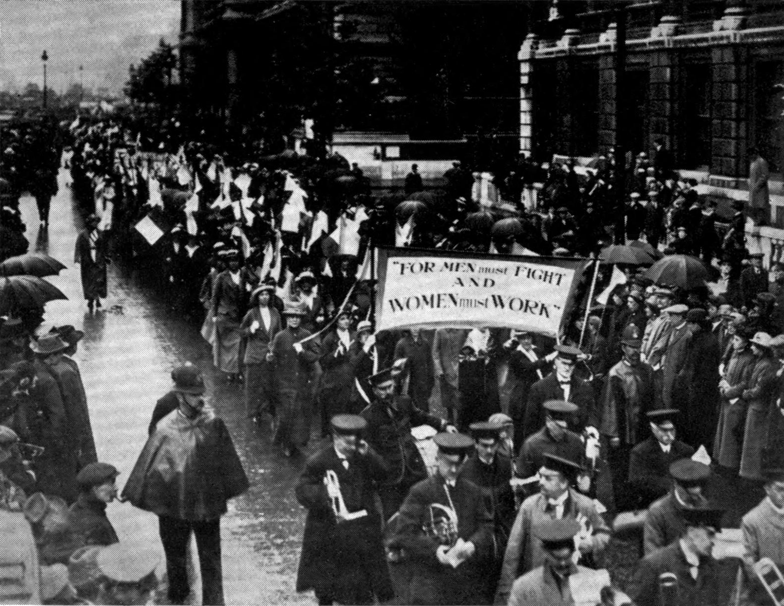 MRS. PANKHURST'S GREATEST PARADE When she led 40,000 English women through the streets of London in July, 1915. This procession is the vanguard in the march of all the women of the world to economic independence.